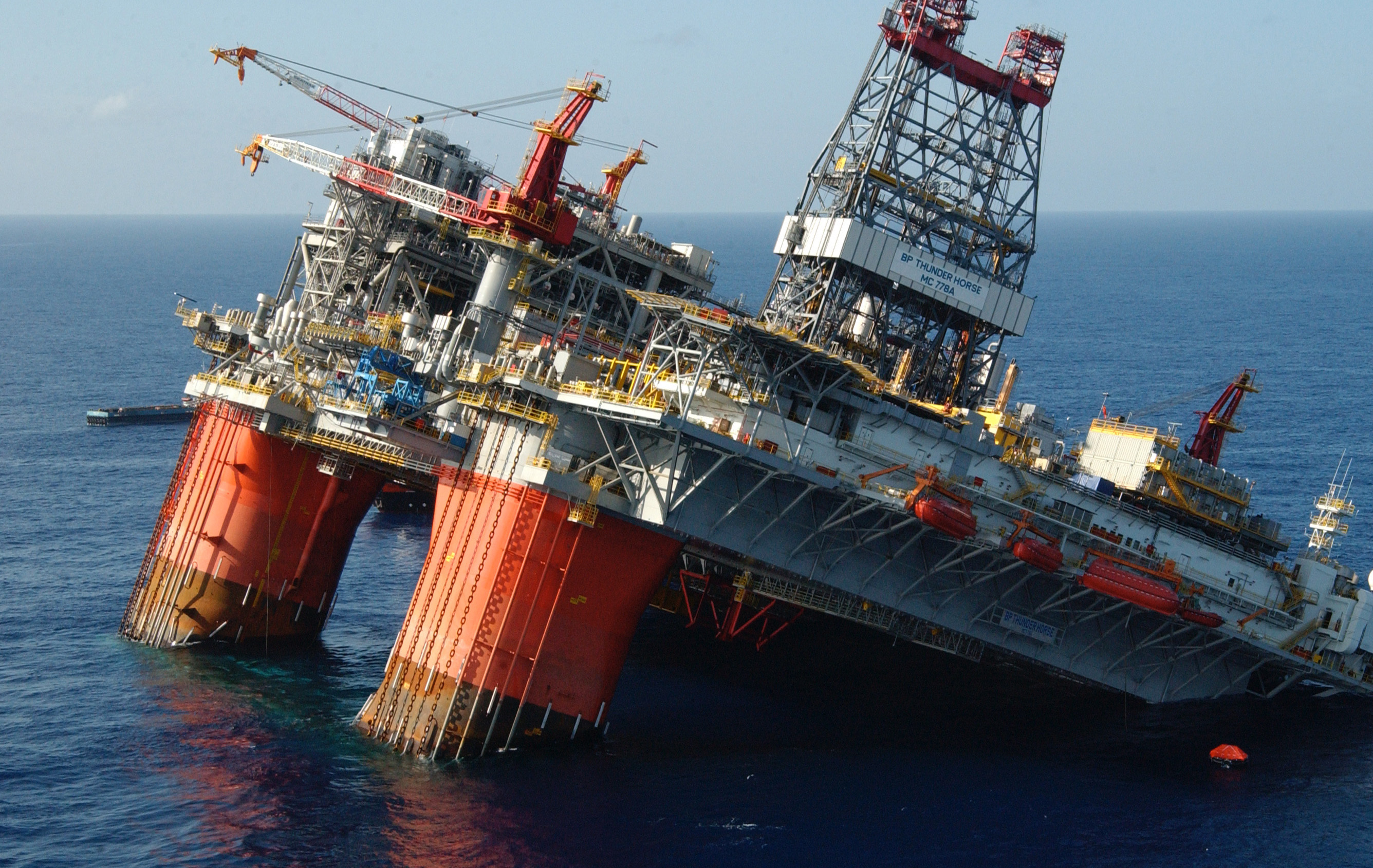 NEW ORLEANS, La. (July 12, 2005)--Thunder Horse, a semi-submersible platform owned by BP, was found listing after the crew returned. The rig was evacuated for Hurricane Dennis. USCG photo by PA3 Robert M. Reed